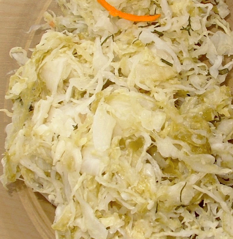 Sauerkraut